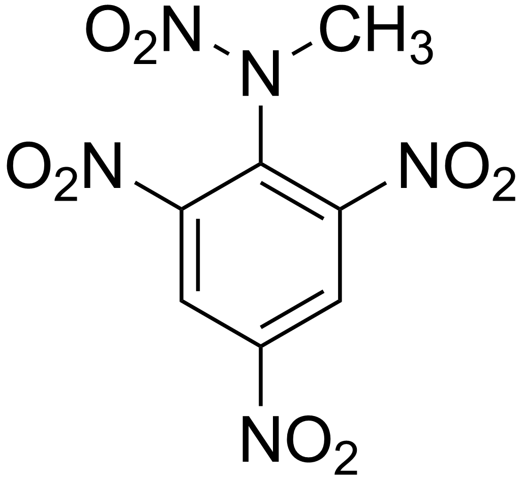 Chemical structure of Tetryl